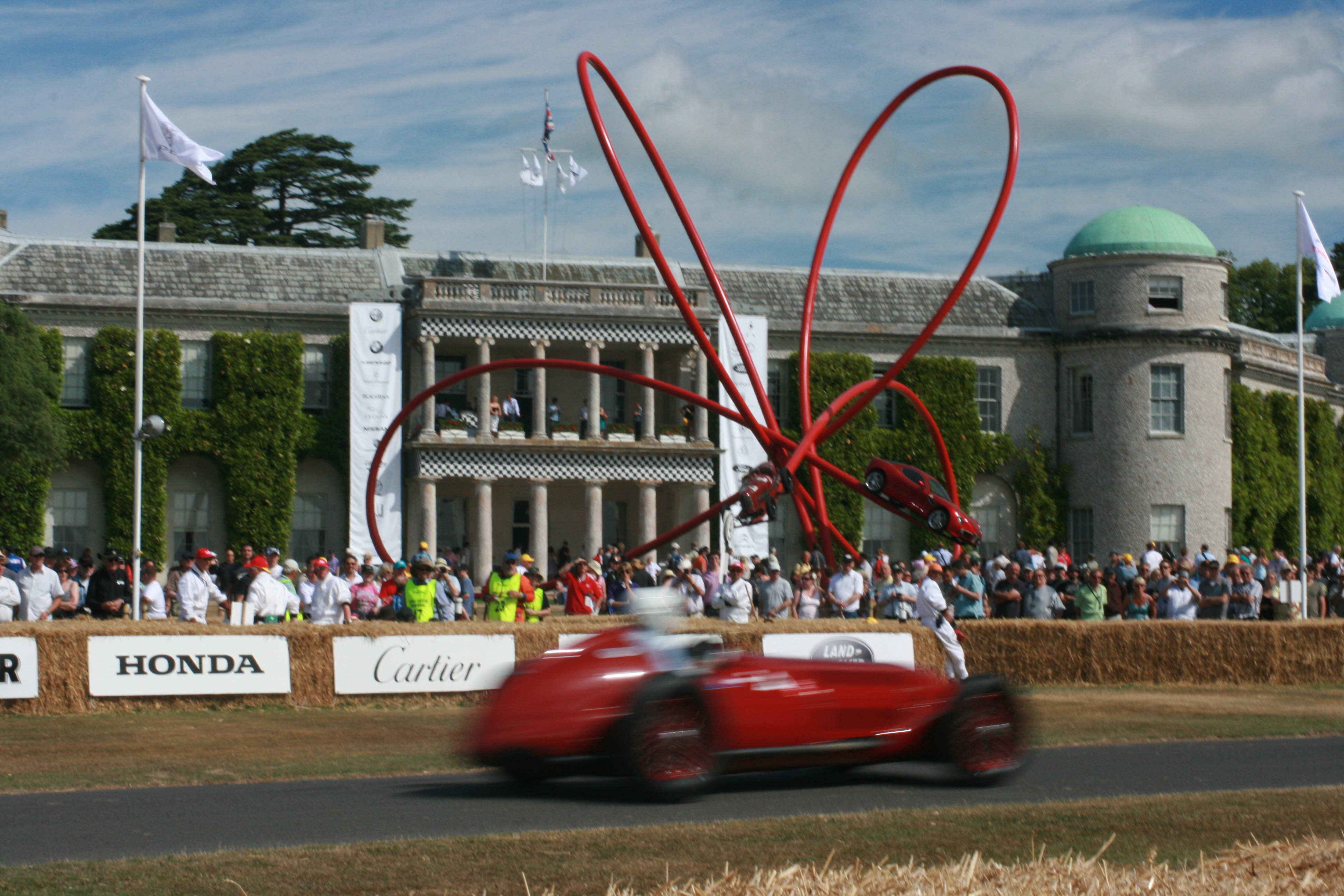 Alfa Romeo at speed past Alfa Sulpture at Goodwood House